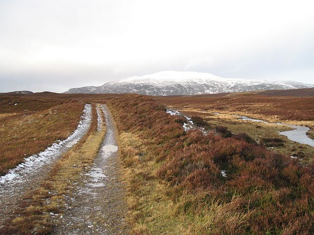 Military road on a kame